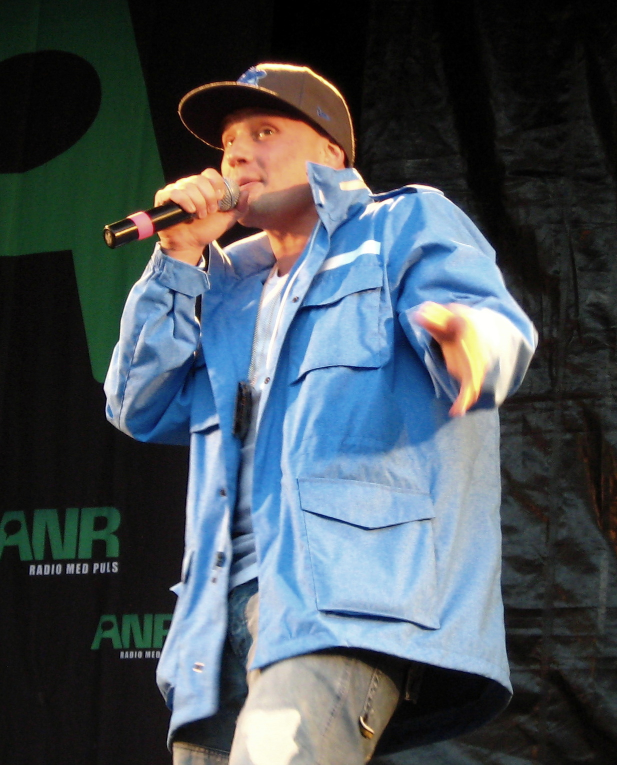 Clemens Legolas Telling / MC Clemens (a Danish singer) performing in Hjørring, Denmark in September 2011